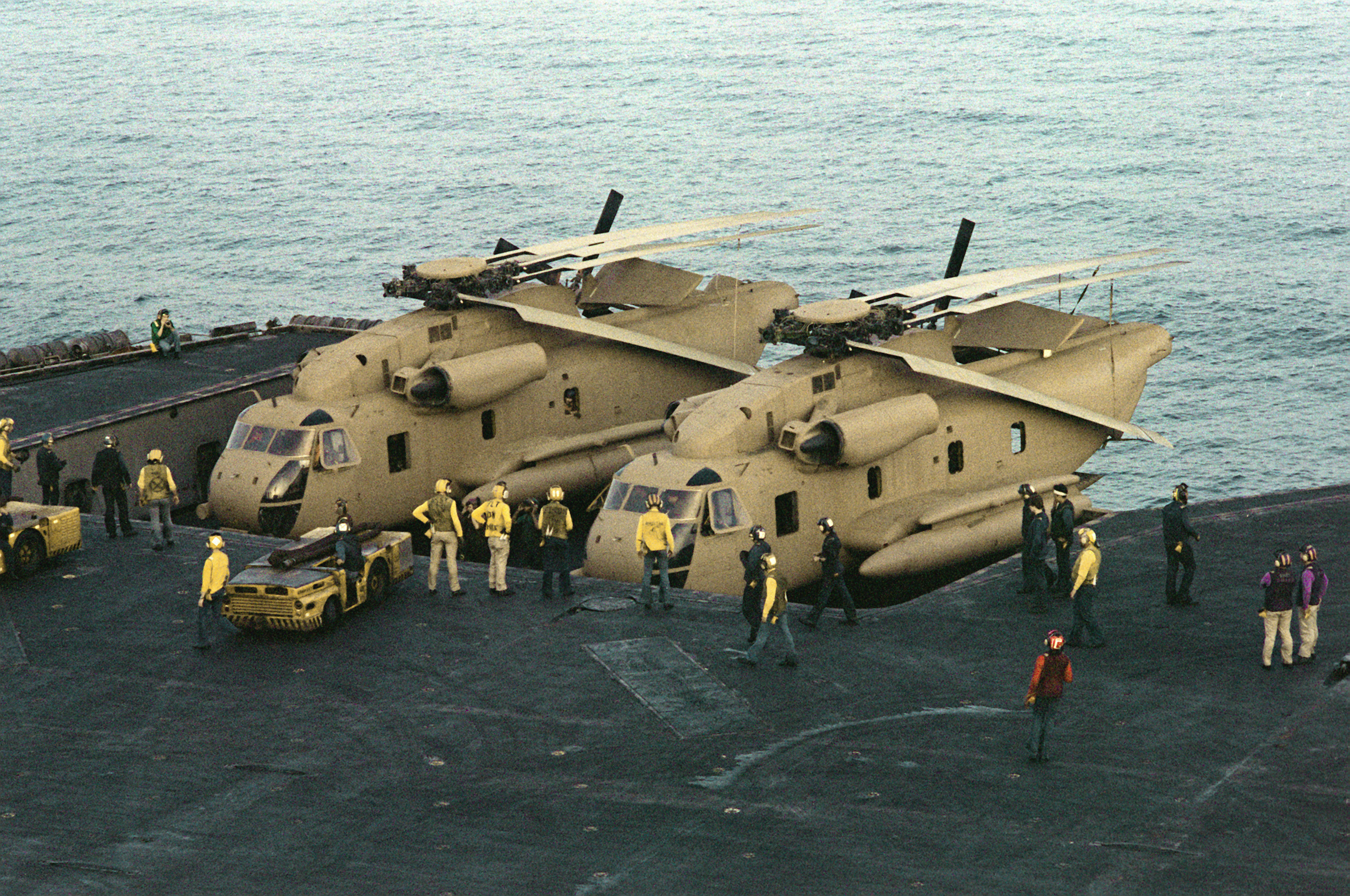 Two U.S. Navy Sikorsky RH-53D Sea Stallion helicopters of helicopter mine countermeasures squadron HM-16 Sea Hawks are brought to the flight deck of the aircraft carrier USS Nimitz (CVN-68) during "Operation Evening Light" (Eagle Claw), in the Arabian Sea on 24 April 1980. Six helicopters would be lost during the failed attempt to rescue U.S. hostages in Iran later that day.